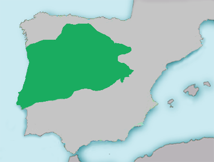 Distribution map of Barbus bocagei in Iberian Peninsula.